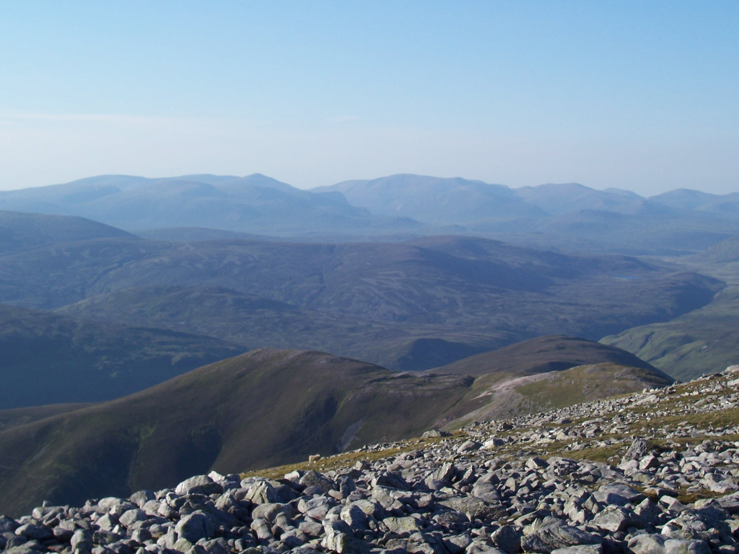 The Cairngorms from Beinn a Ghlo Taken by Stuart Westwater